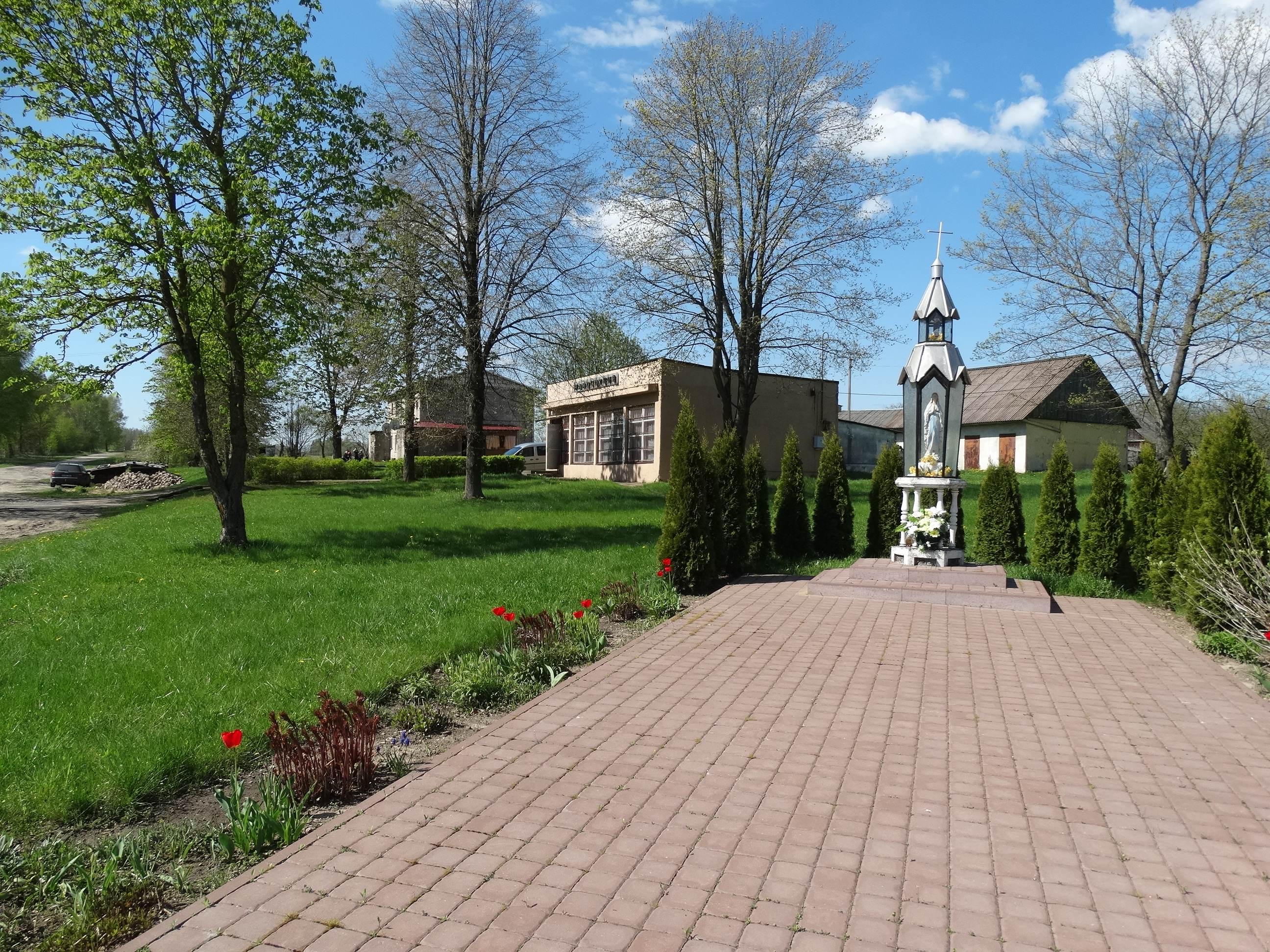 Dailidės, Šalčininkai District, Lithuania